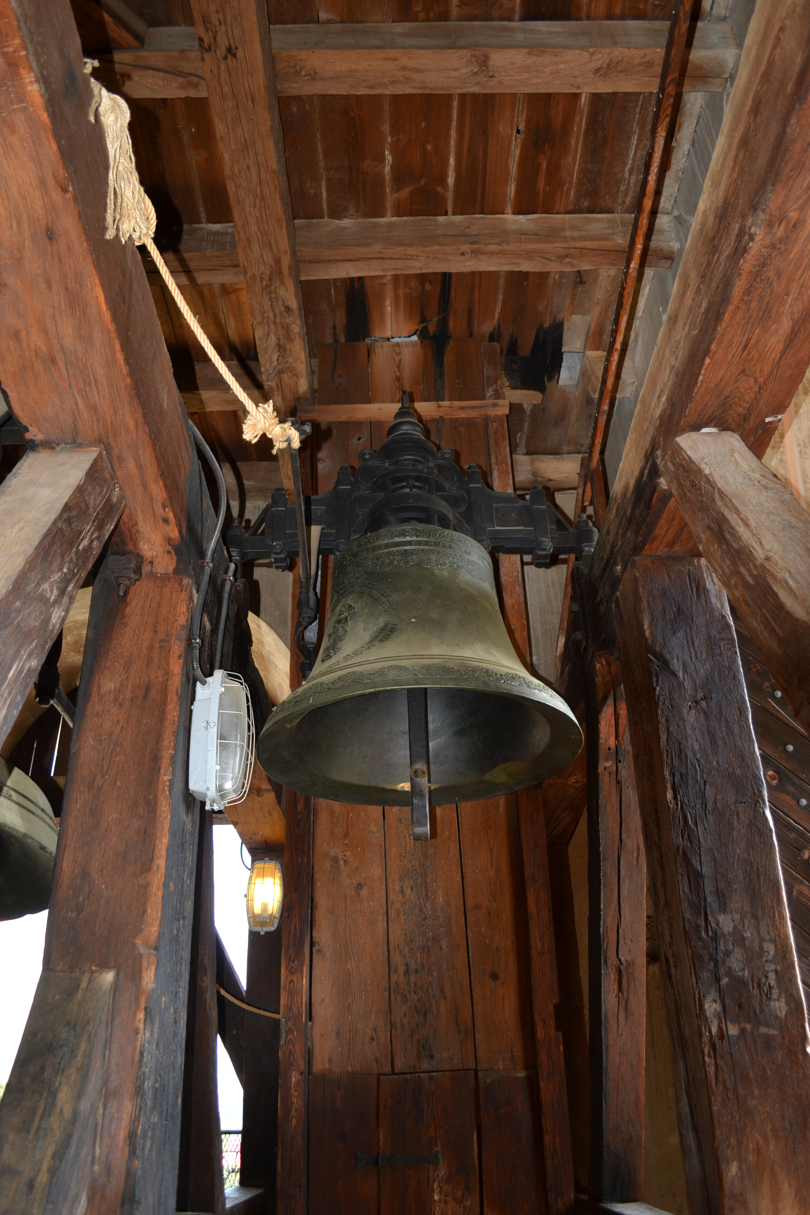 Castle tower - Bell (3), 18th century, Inscriptional label under the upper bell's edge: In 1761 Pavol Bohuss from Behárovce - The middle of the bell: Consecrated to the honour of patron Saint Catharine, God be praised by his voice and chant - Senate and people of Banská Štiavnica - Defending you, Jesus Christ, we do not hesitate with victory, our patron is worth the victory - Gaining scholarship for clever ancestors of a nation is a victory men cannot do.